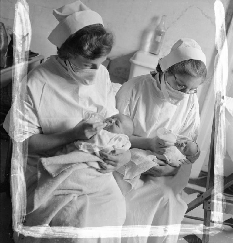 Mansion Becomes Maternity Home- Life at Brocket Hall, Welwyn, Hertfordshire, 1942 Student midwives bottle-feed two small babies (they are twins) with breast milk at Brocket Hall. The nurses wear surgical masks to prevent the spread of germs to the young babies.